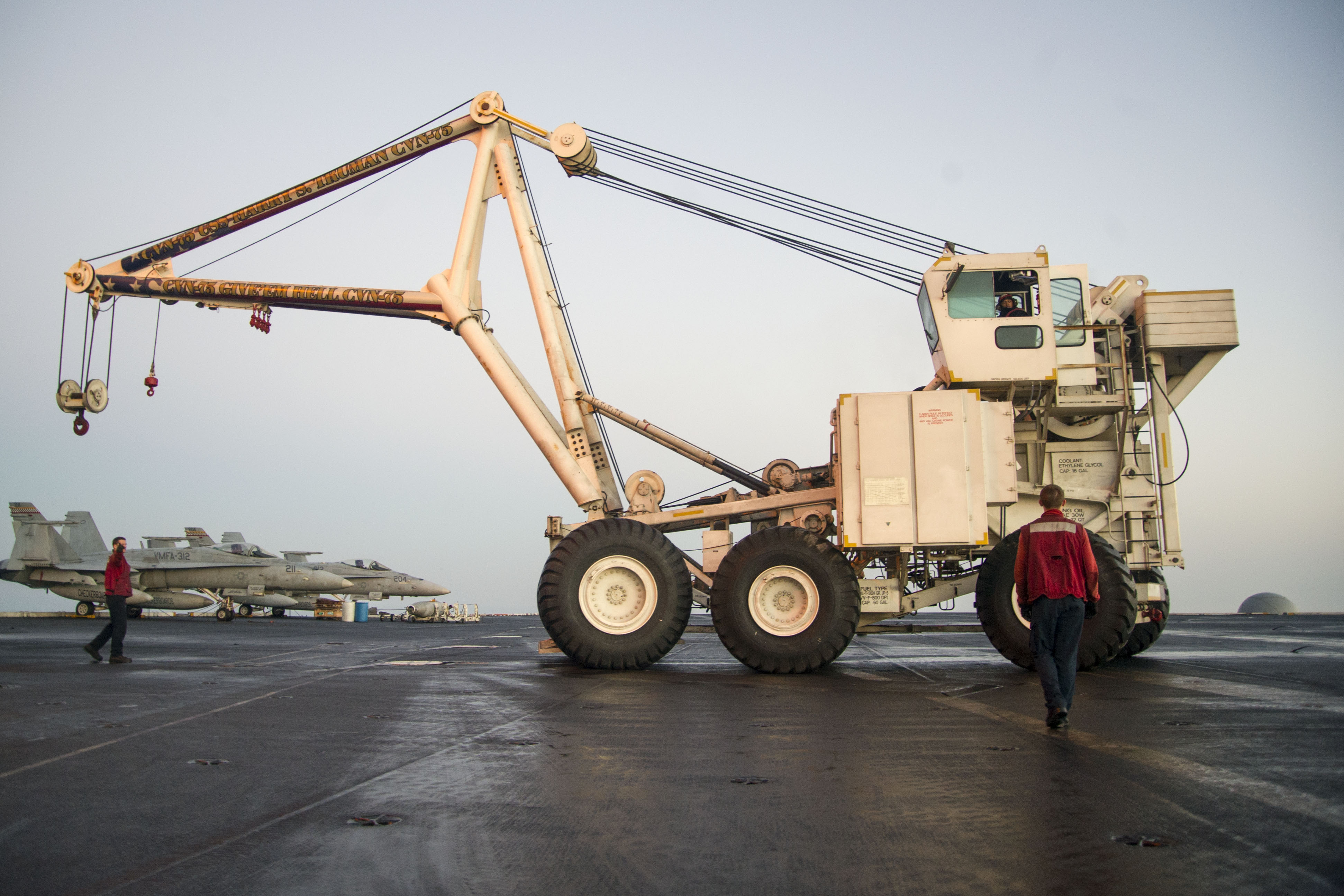 U.S. Sailors assigned to the crash and salvage team aboard the aircraft carrier USS Harry S. Truman (CVN 75) move the ship’s mobile salvage crane on the flight deck March 9, 2014, in the Gulf of Oman. The Harry S. Truman Carrier Strike Group was deployed to the U.S. 5th Fleet area of responsibility conducting maritime security operations and theater security cooperation efforts in support of Operation Enduring Freedom.